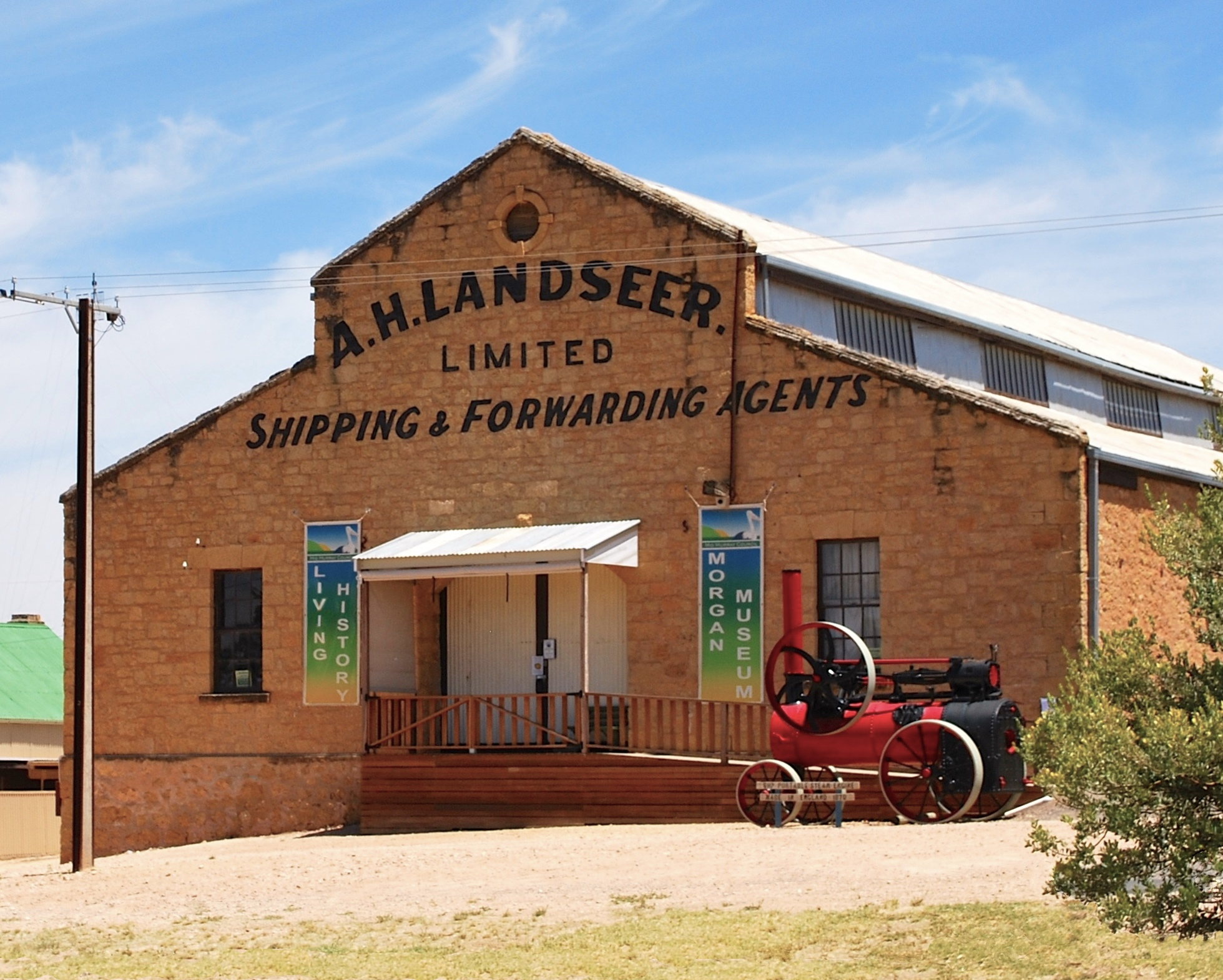 A stone warehouse, originally owned by A.H. Landseer, now the Morgan museum. This building, built from local stone, was one of several warehouses built by Albert Landseer along the River Murray in South Australia during the latter half of the 19th century.